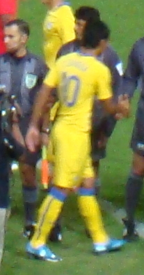 Teerasil Dangda, before the 2011 AFC Asian Cup match against Singapore at Rajamangala Stadium